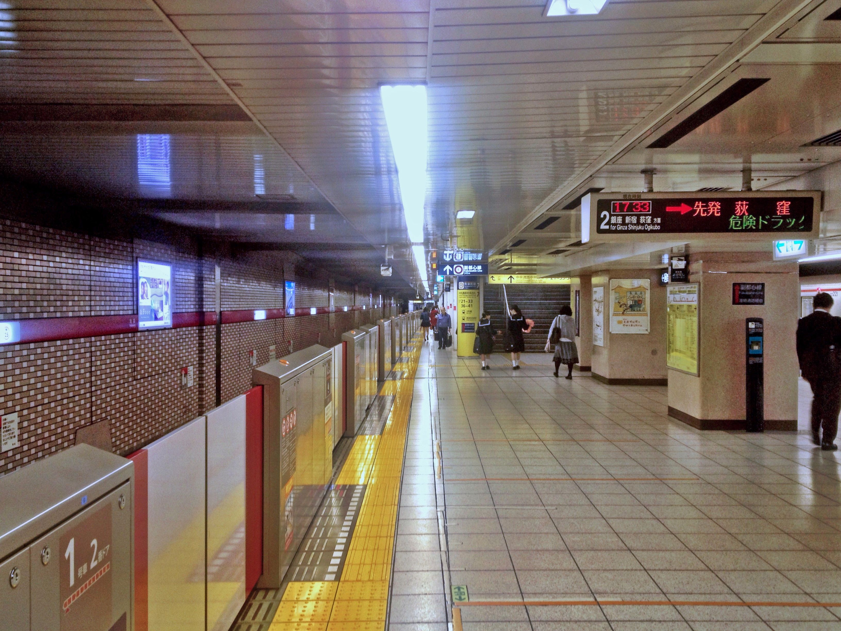 The Tokyo Metro Marunouchi Line platforms at Ikebukuro Station in Tokyo